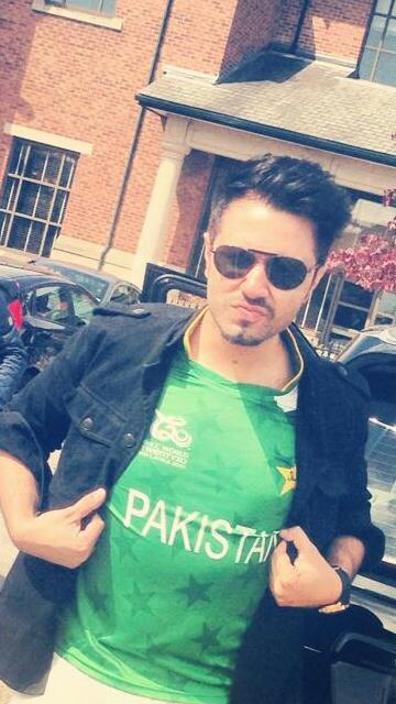 Mustafa Zahid at Bradfort